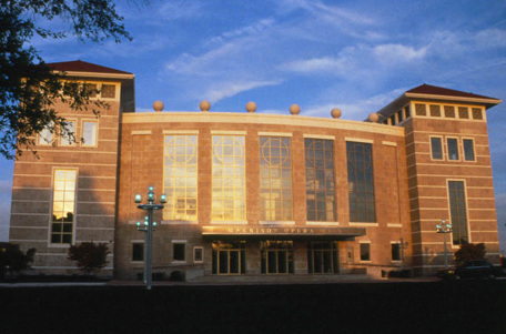 Taken July 23, 2007